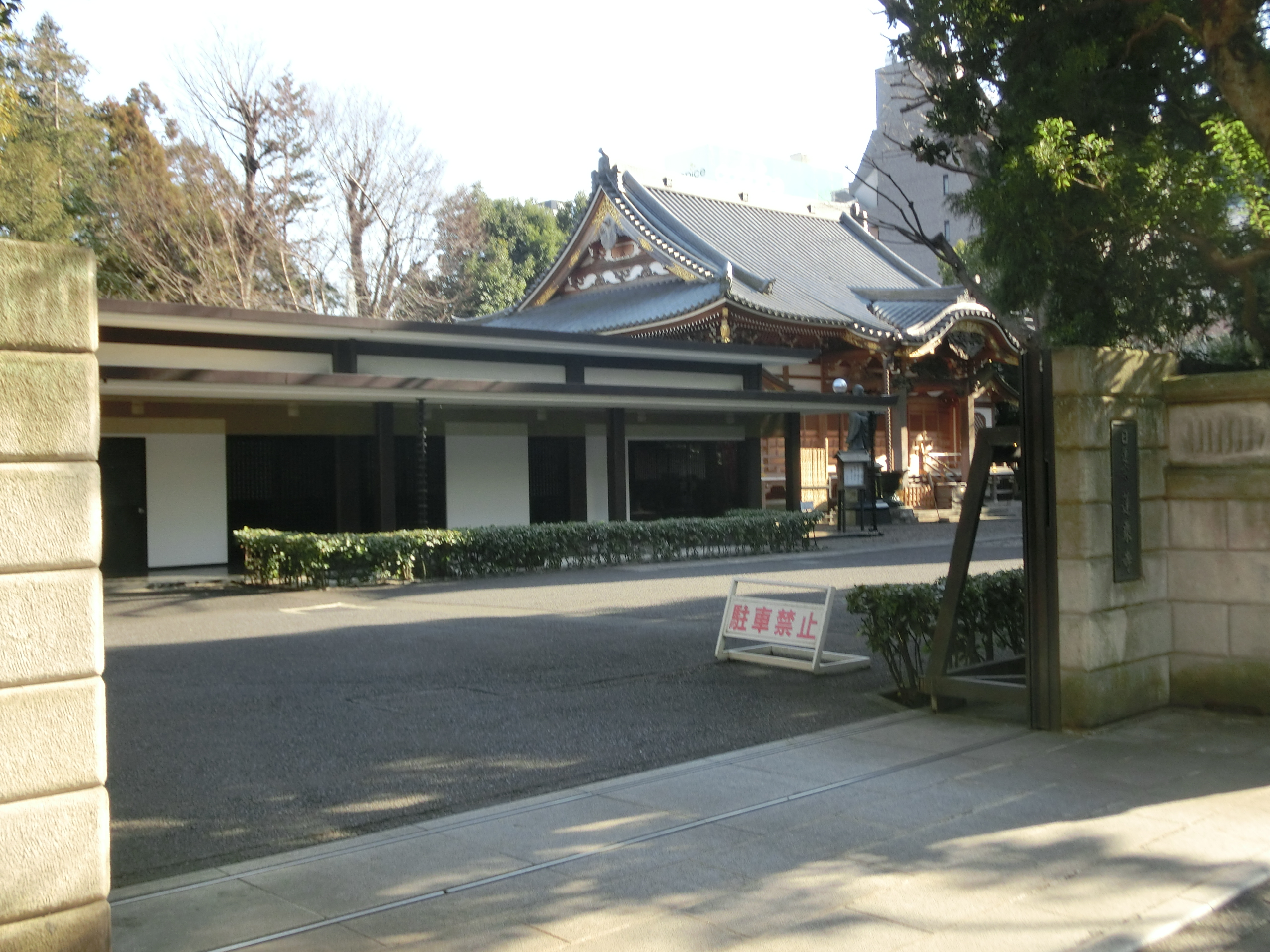 Renjo-ji (Musashino)